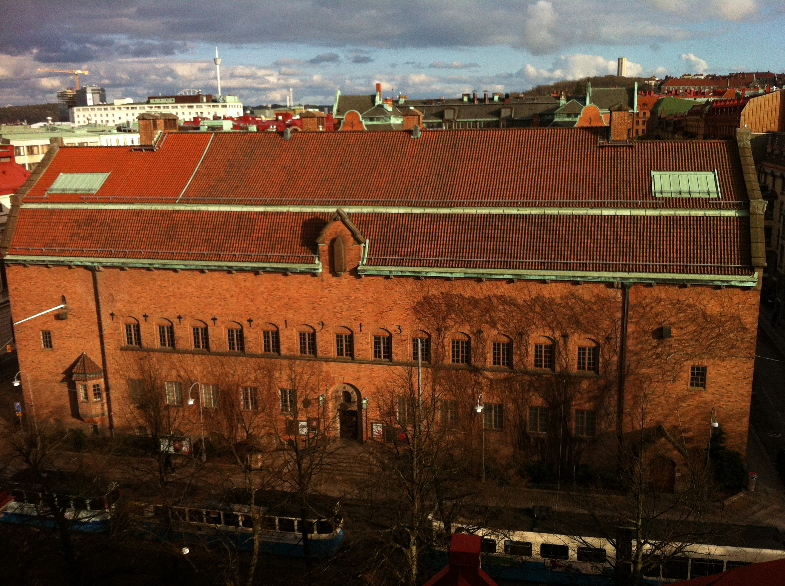 The Röhsska museum on Vasagatan in Gothenburg, Sweden, 2011